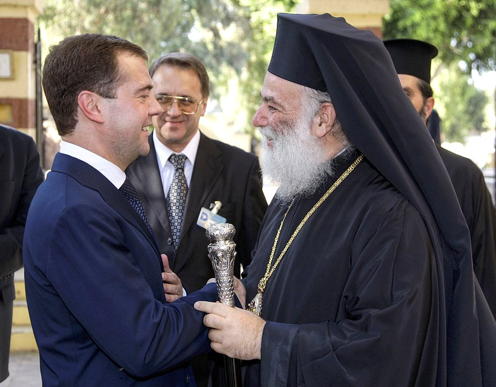 CAIRO. With Pope and Patriarch of Alexandria and All Africa Theodoros II.